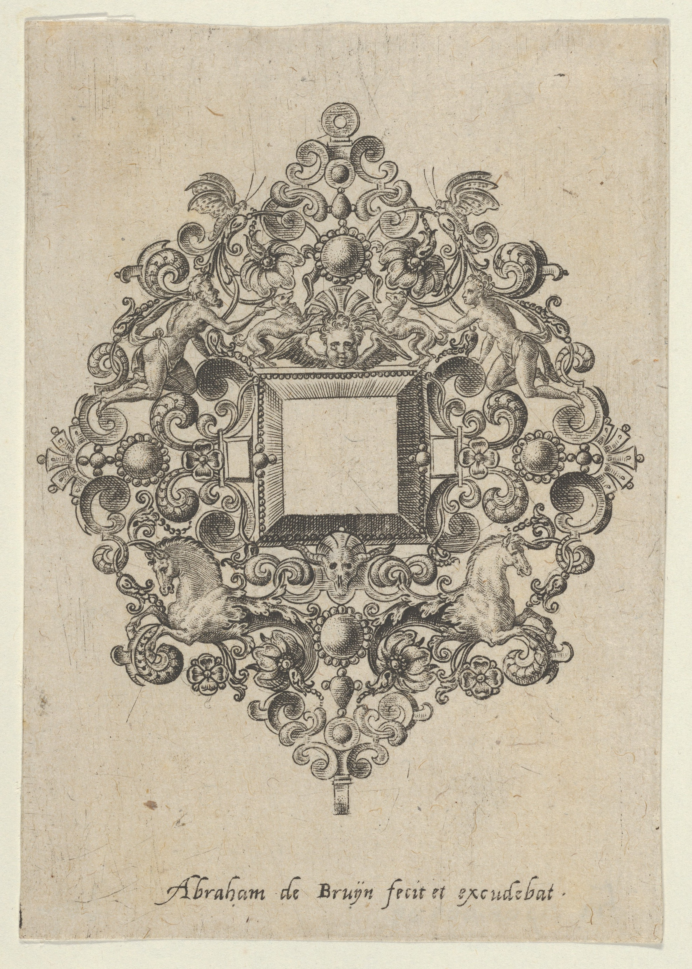 print ornament & architecture; Prints/Ornament & Architecture